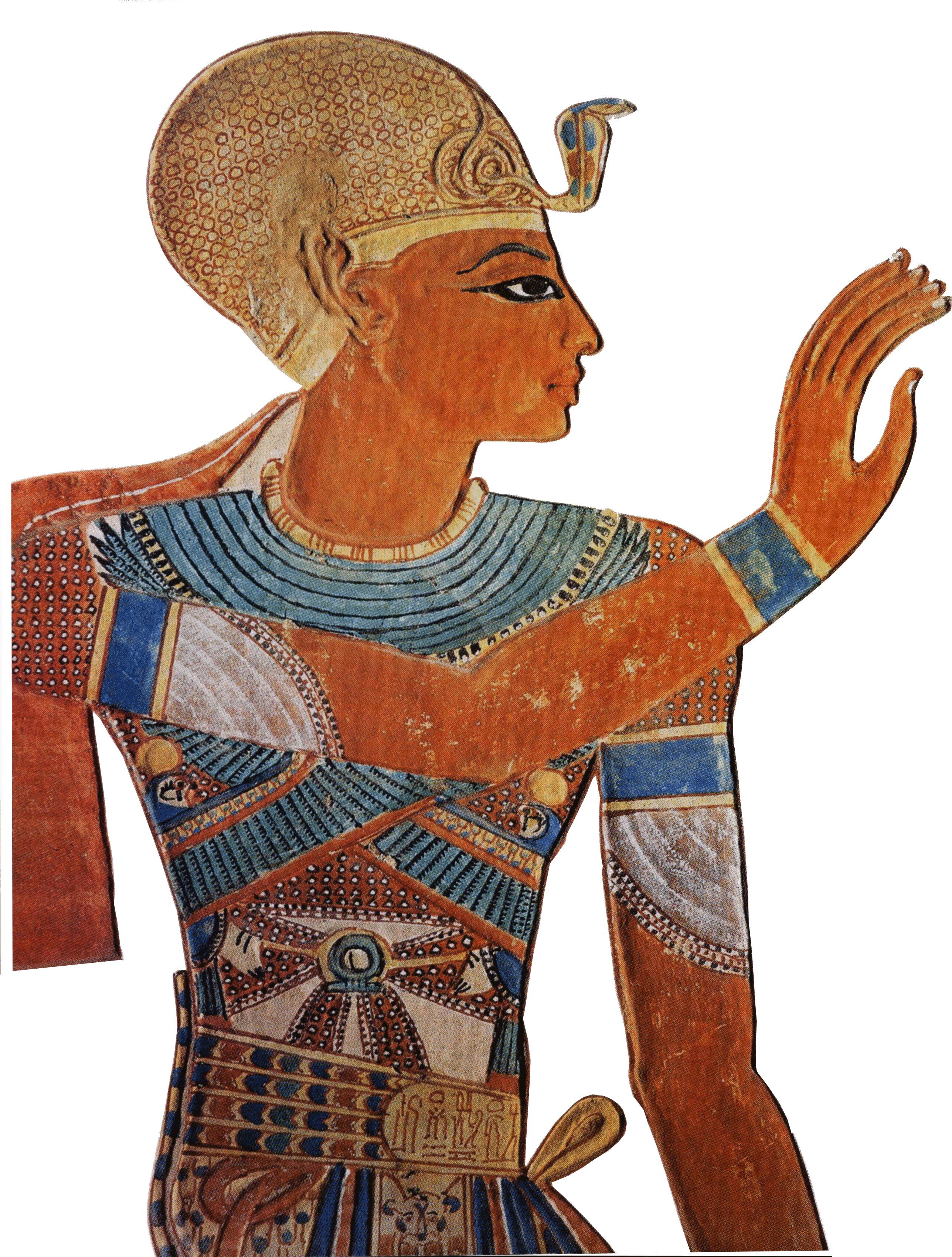 Ramsès III.